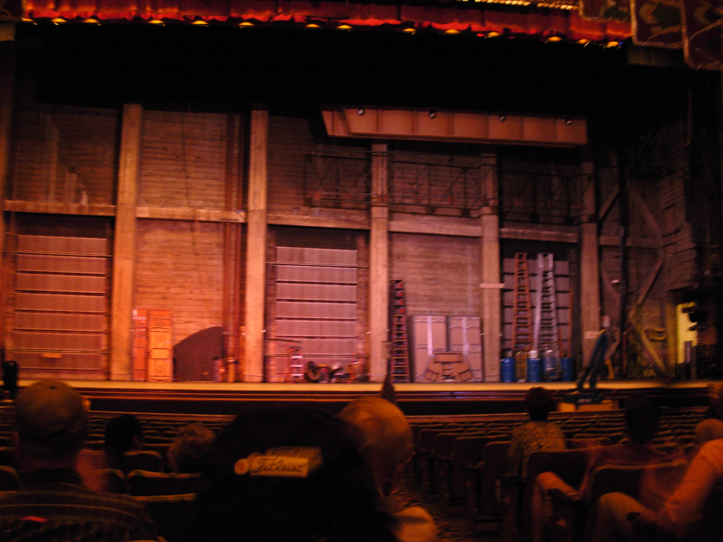 The most postmodern theater production ever